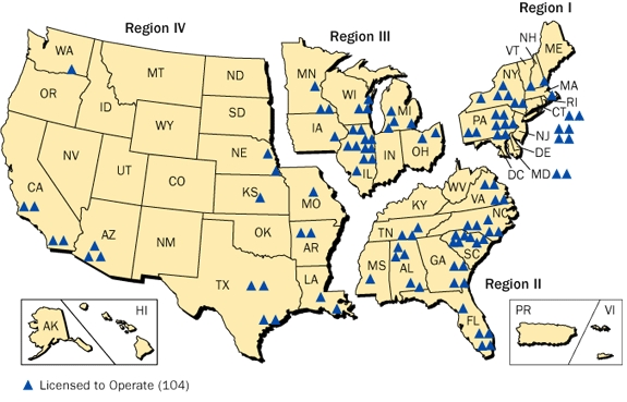 Map of the United States by Nuclear Regulatory Commission (NRC) Regions and locations of licensed plants